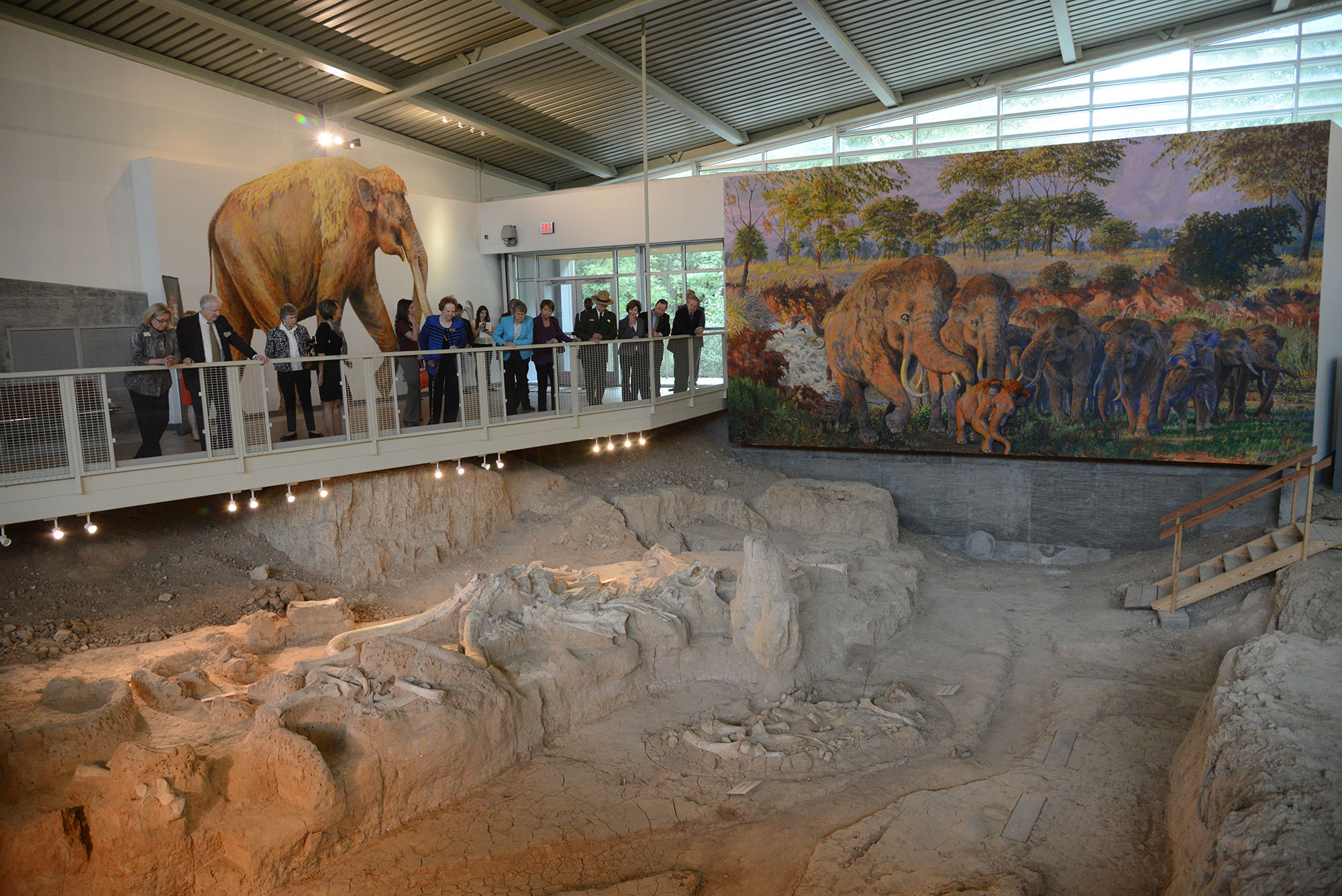 U.S. Secretary of the Interior Sally Jewell and Former First Lady Laura Bush today joined community members to celebrate the President’s designation of the Waco Mammoth National Monument as one of the nation’s newest national monuments, permanently protecting the site where the extremely well-preserved fossils of a herd of Columbian Mammoths and other Ice Age animals have been found. President Obama designated the area as a national monument on July 10, 2015, as part of the Administration’s commitment to protect our country’s significant natural, historical and cultural treasures for the benefit of future generations. Credit Photos Tami A. Heilemann